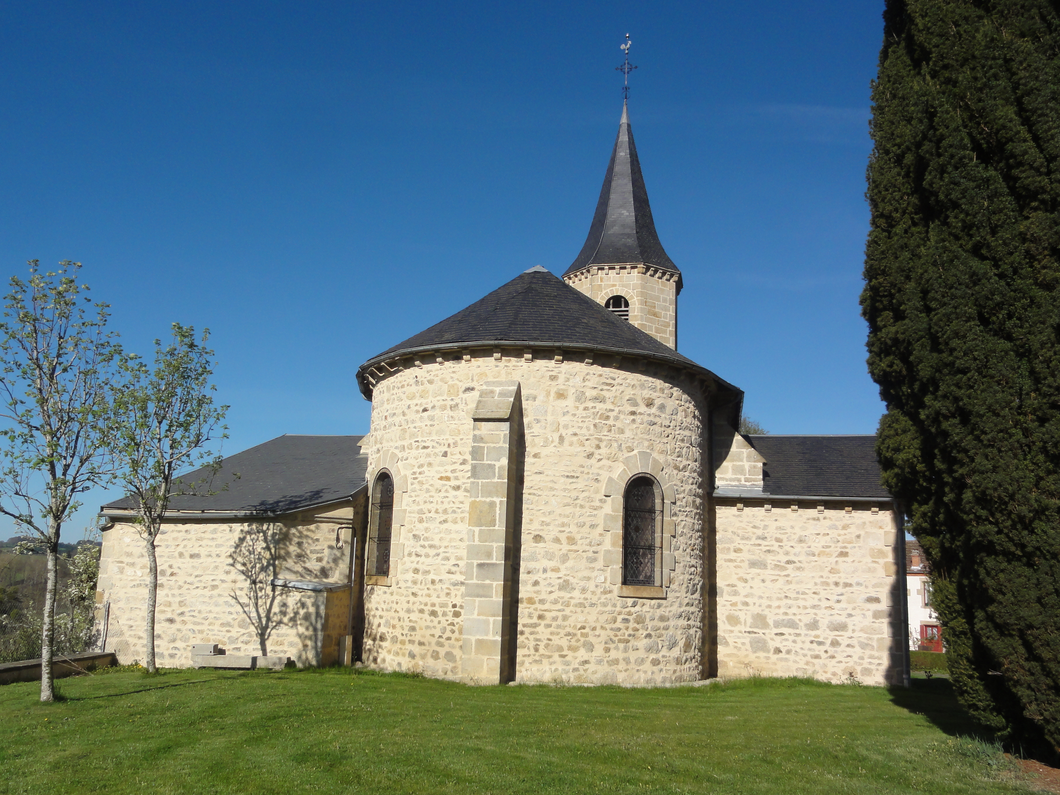 Saint-Julien-la-Geneste (Puy-de-Dôme) église Saint Blaise